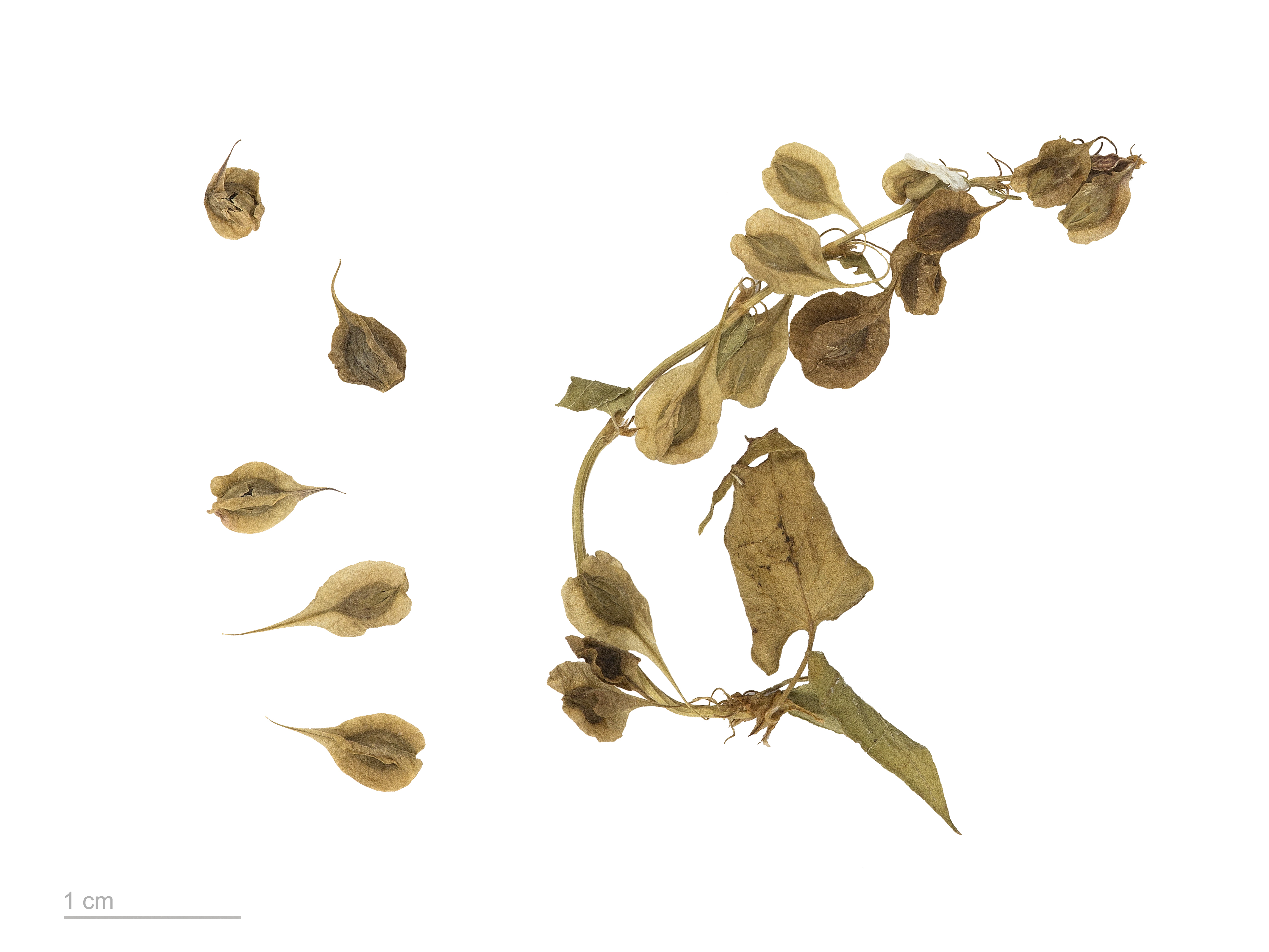 Copse-bindweed , fruits and seeds